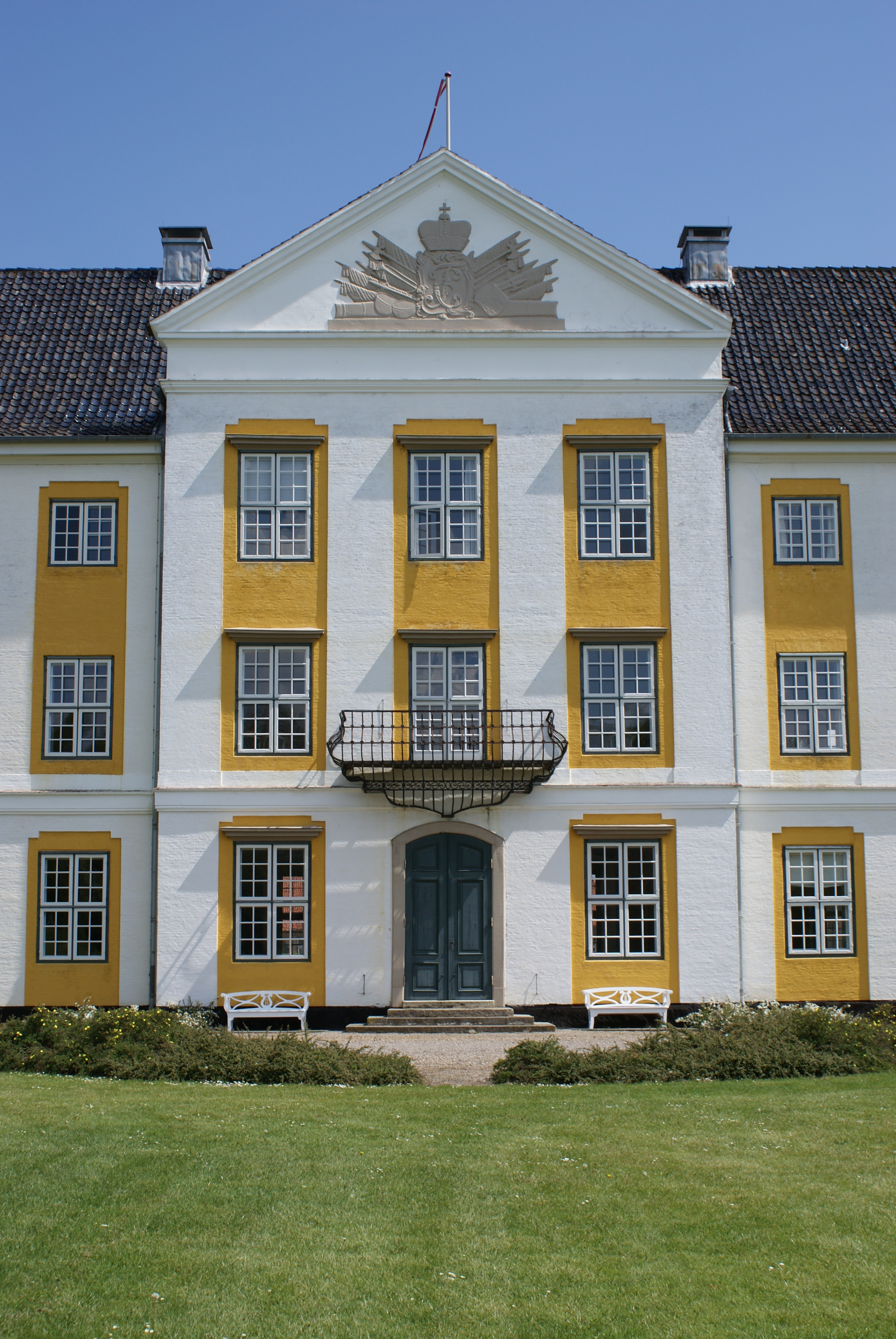 Closer View to Augustenborg Palace